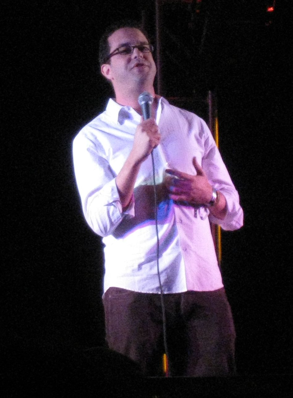 Joe DeRosa. This photo was taken on September 19, 2008 in Monticello, New York